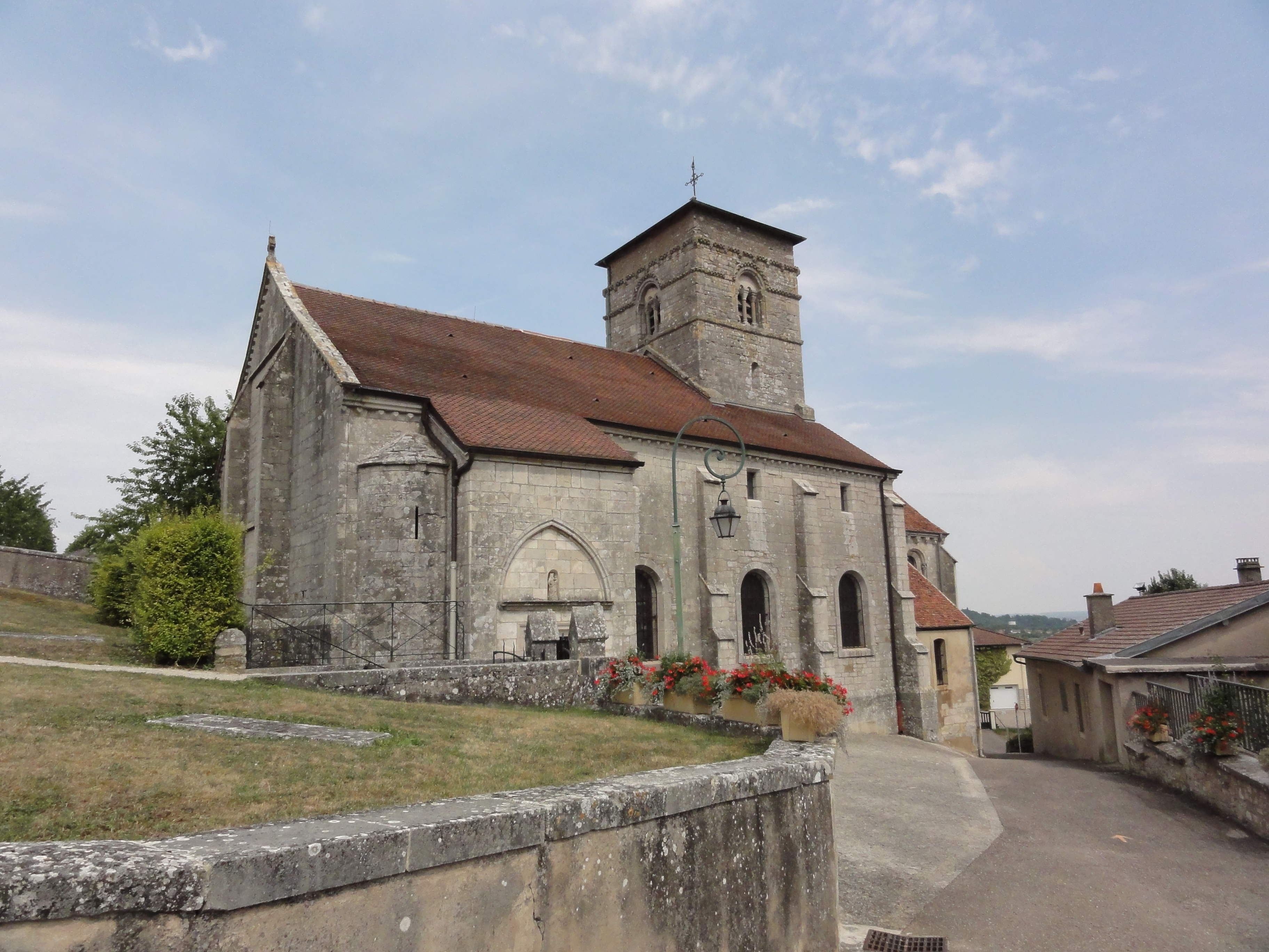 Écrouves (Meurthe-et-M.) Église Notre-Dame-de-la-Nativité-et-de-la-Vierge